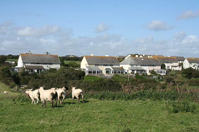 Chivelstone: housing at East Prawle Seen from the road by Higher Farm